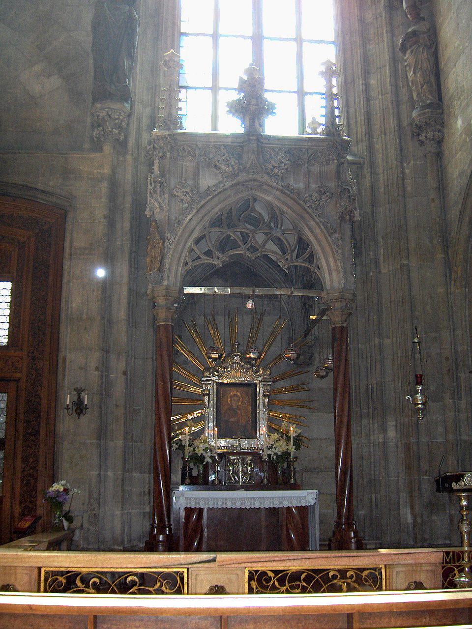 The Pötscher Madonna in the Stephansdom in Vienna, Austria